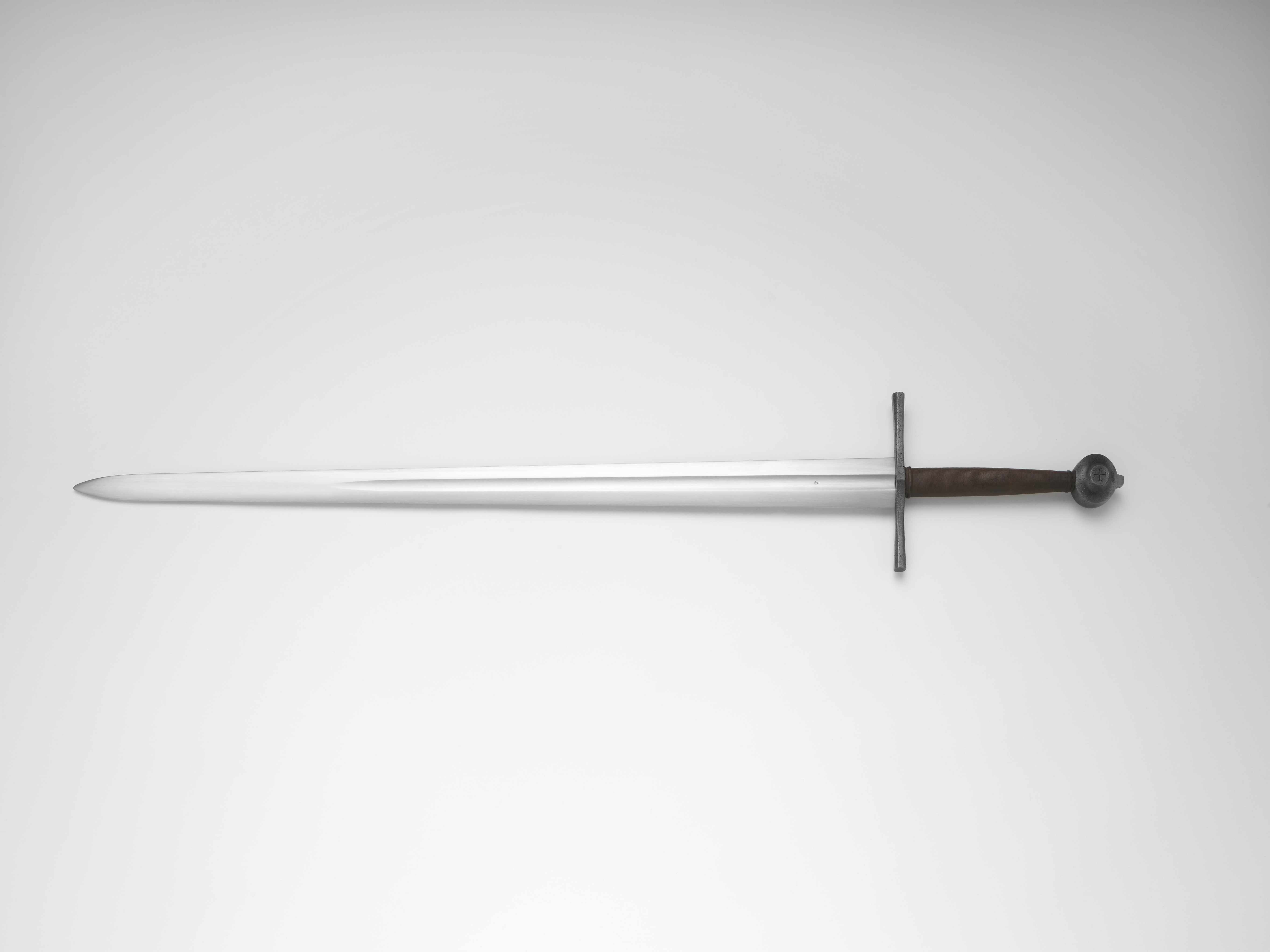 The Baron Limited Edition Medieval War Sword